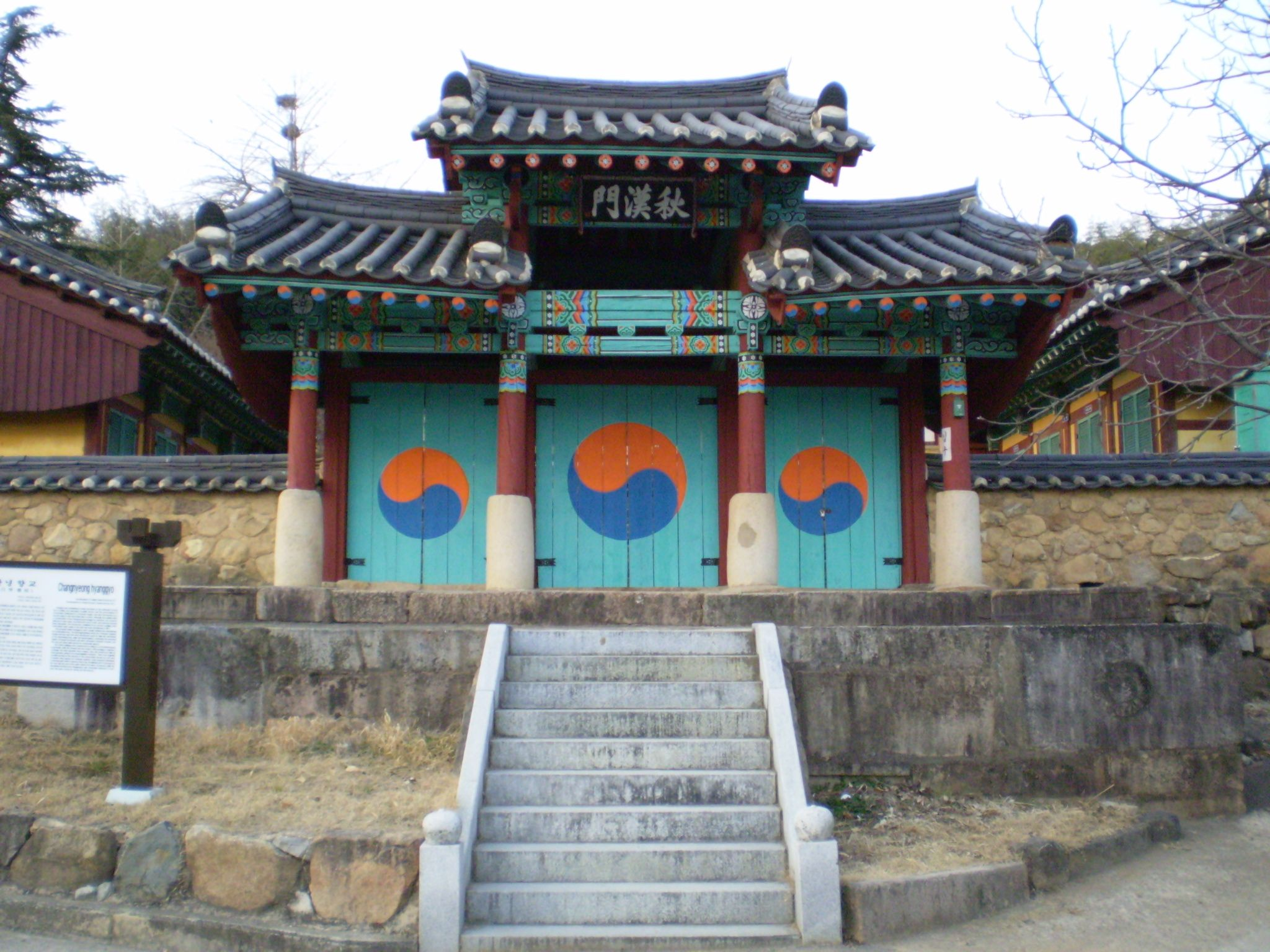 Gate of the Changnyeong hyanggyo, a Joseon-era government-run academy, in Changnyeong, Gyeongsangnam-do, South Korea.